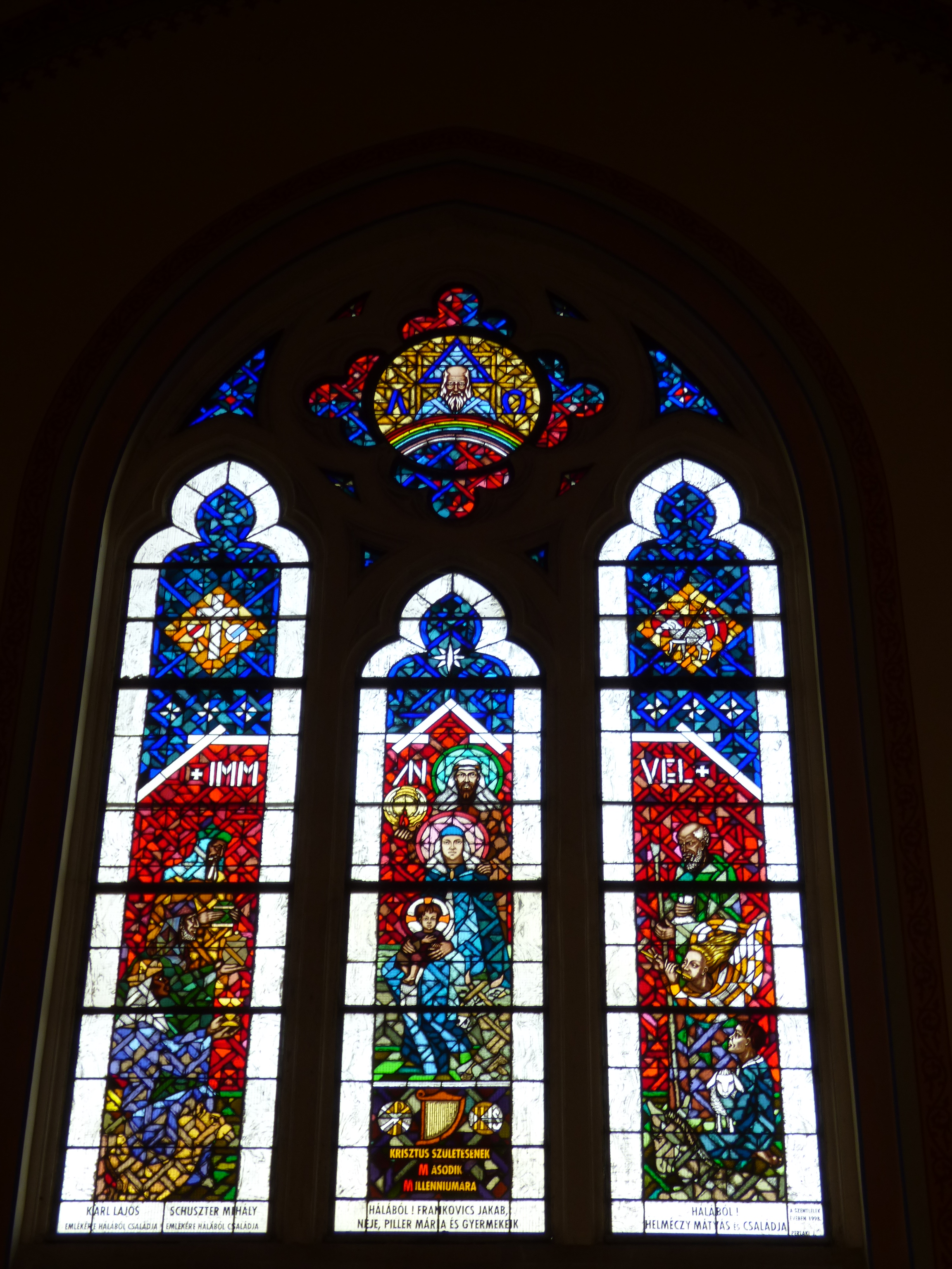 Dunaharaszti, a templom egyik díszablaka az északi homlokzaton, belülről nézve